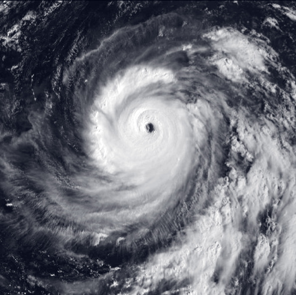 Typhoon Joan at peak intensity on October 18